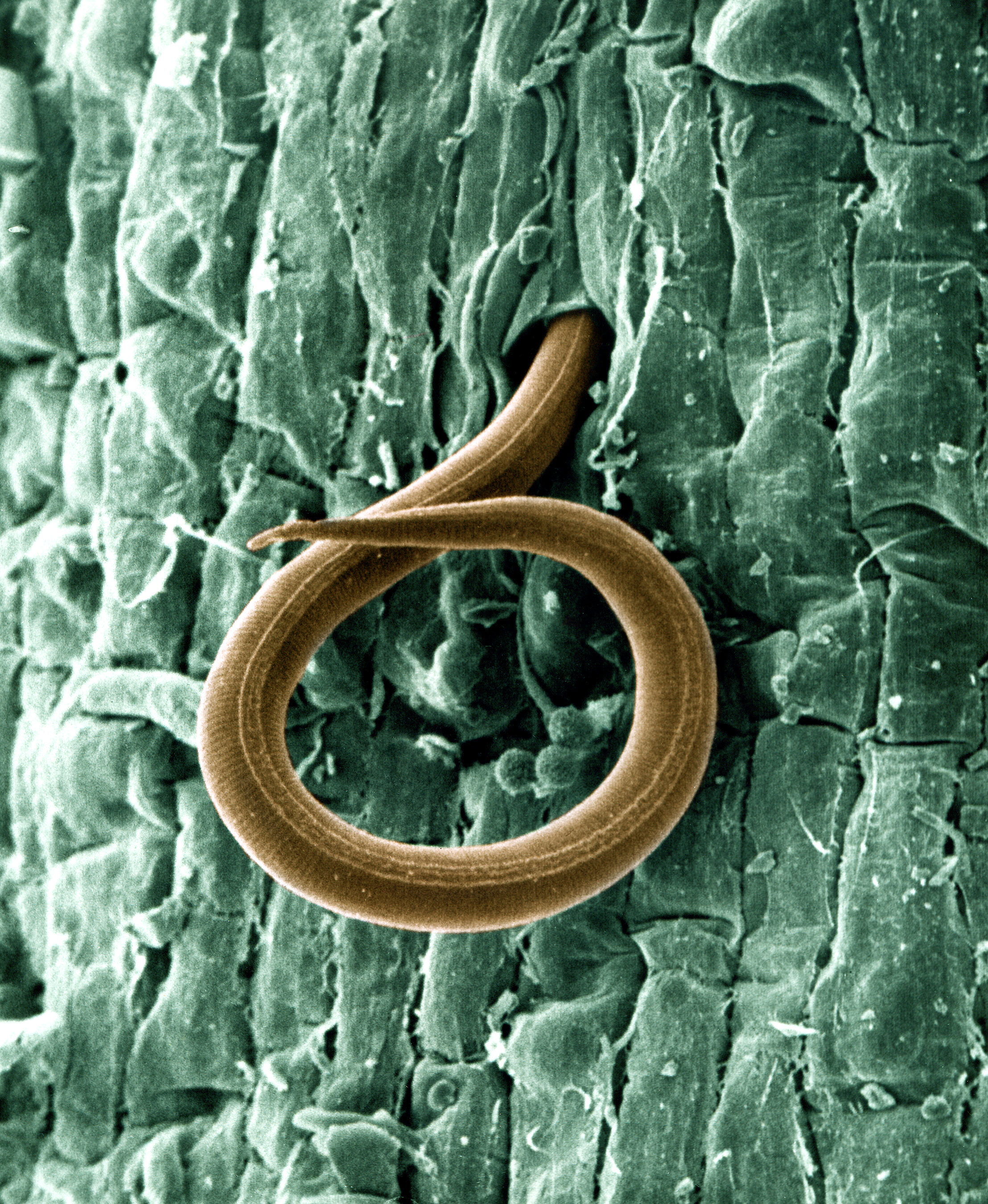 A juvenile root-knot nematode (Meloidogyne incognita) penetrates a tomato root on Jan. 24, 2013. Once inside, the juvenile, which also attacks cotton roots, causes a gall to form and robs the plant of nutrients Photo by William Wergin and Richard Sayre. Colorized by Stephen Ausmus.